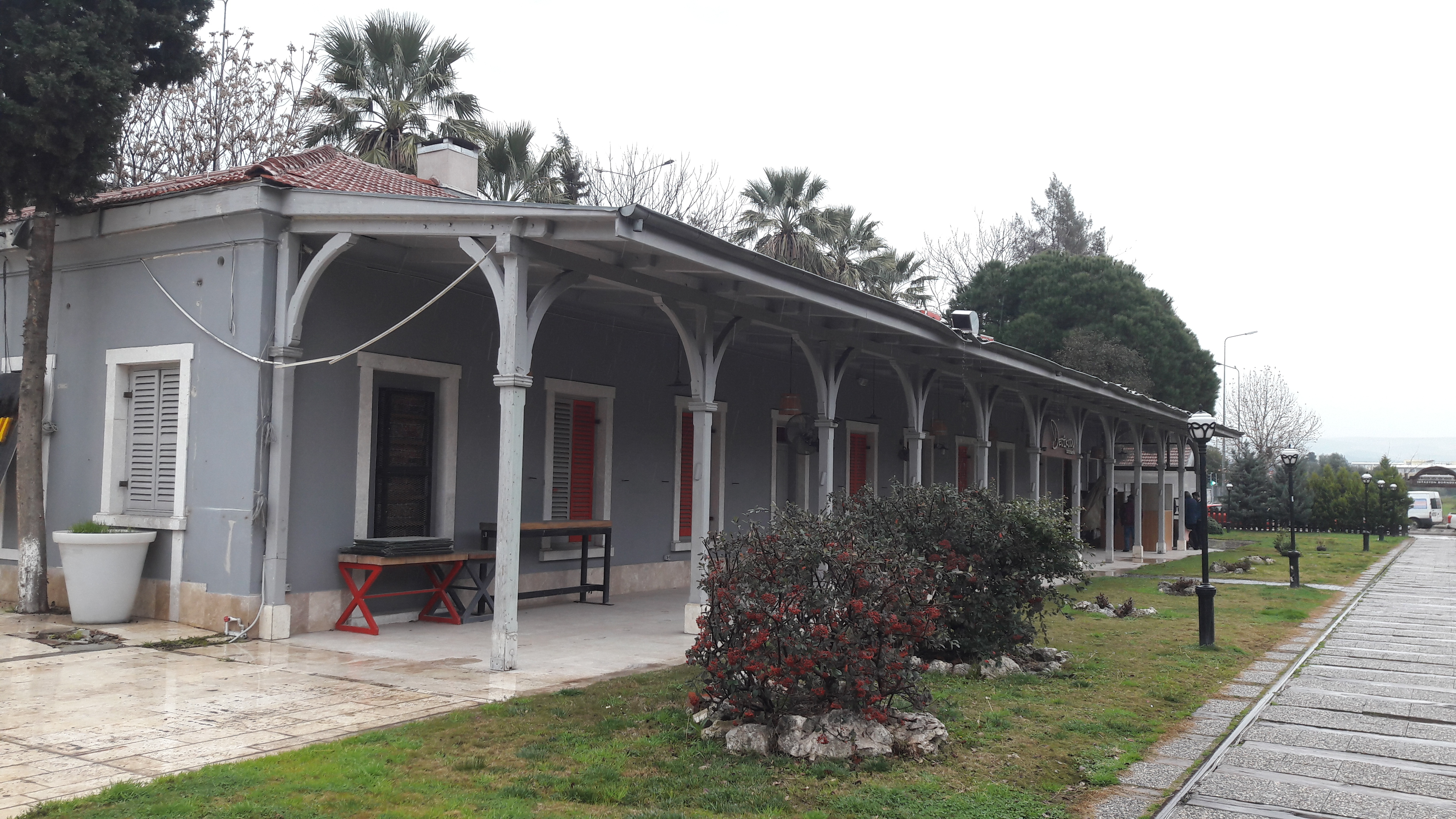 The old Bornova railway station built by the SCP.